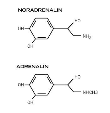 Structural formulas for noradrenalin and adrenalin